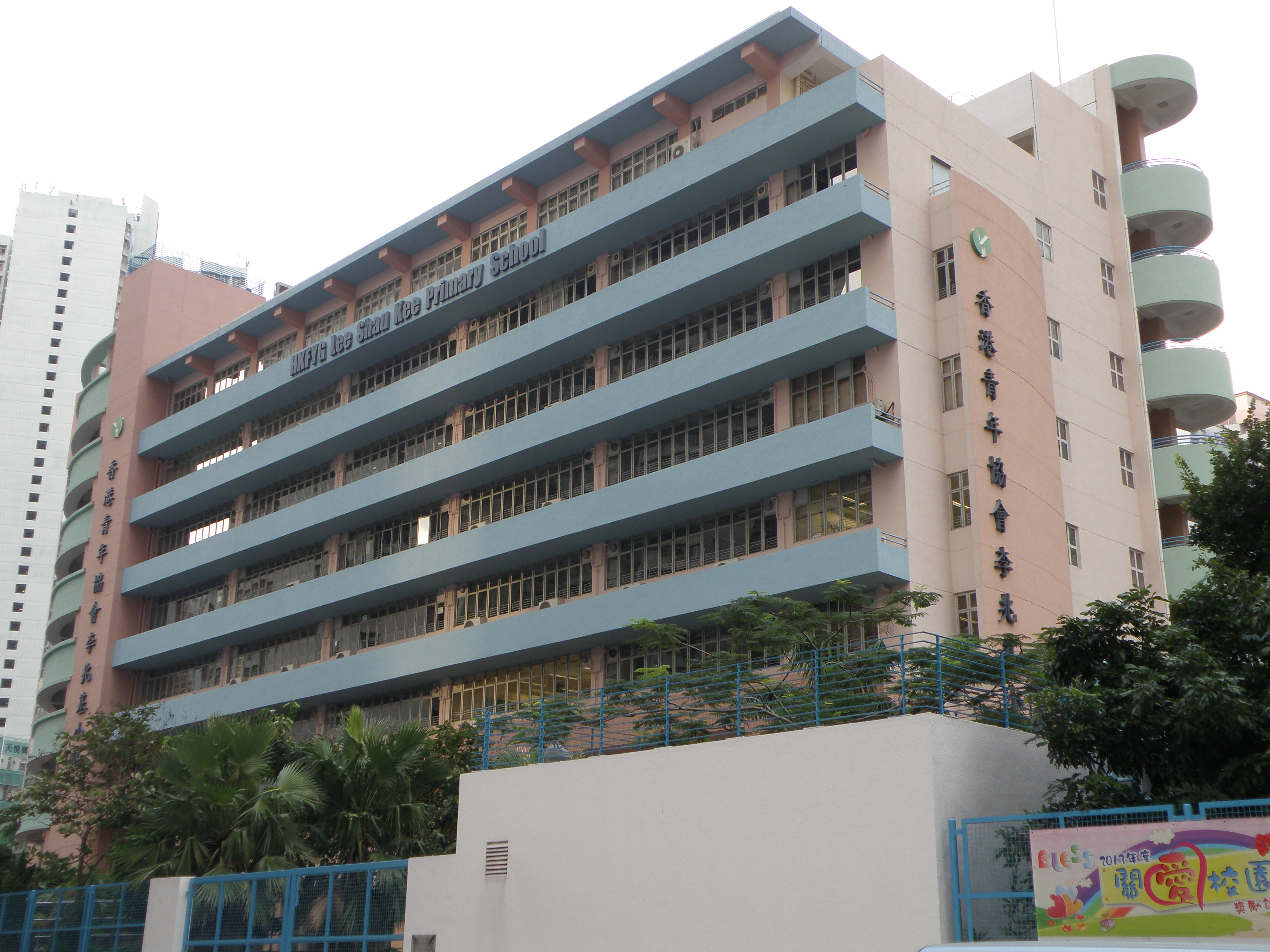 Hong Kong Federation of Youth Groups Lee Shau Kee Primary School in Tin Shui Wai, Hong Kong.